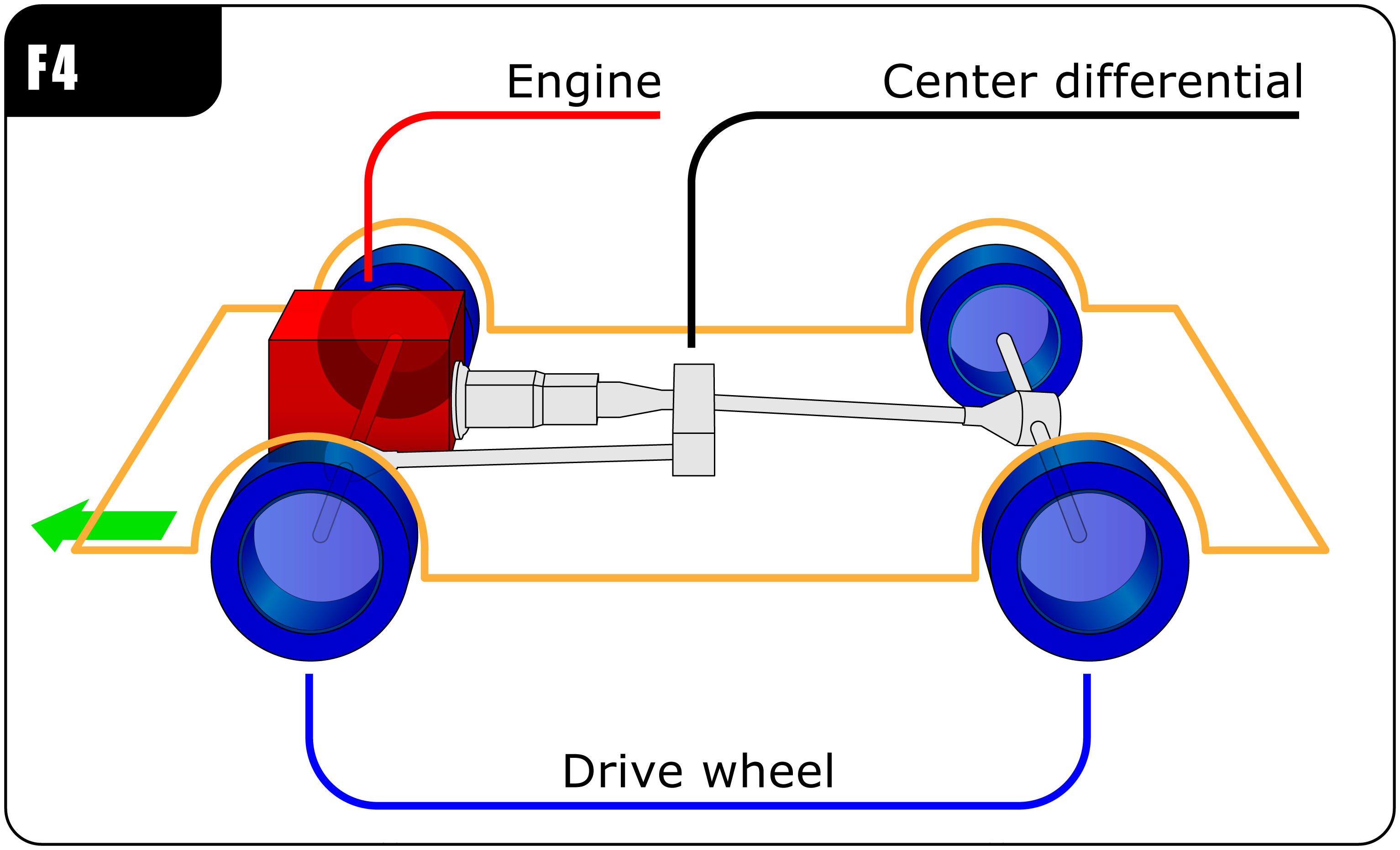 Vehicle engine and drive wheel placement diagrams